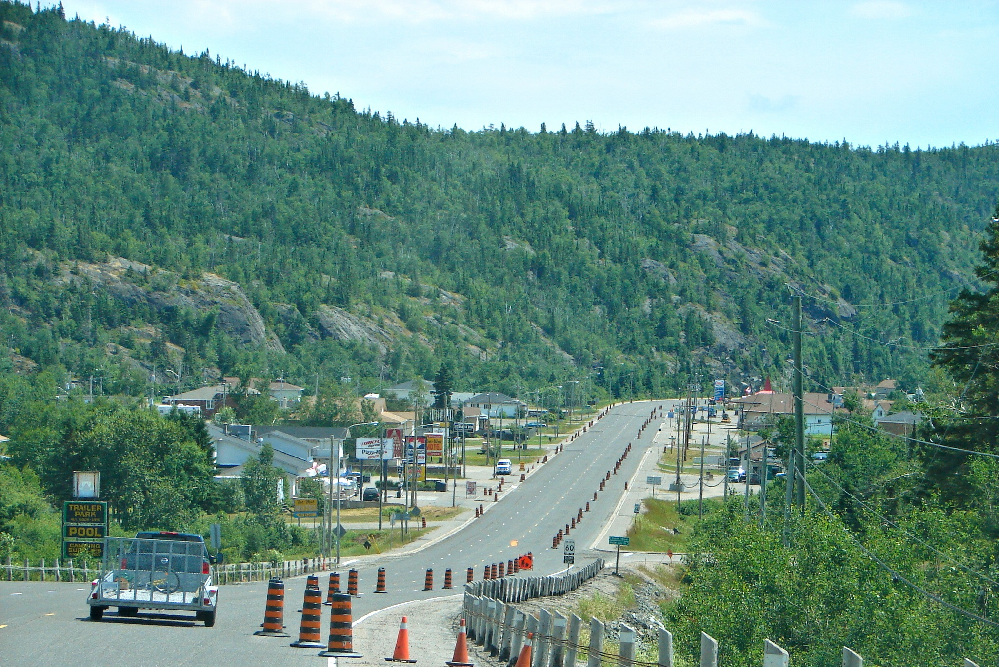 Schreiber, Thunder Bay District, Ontario, Canada